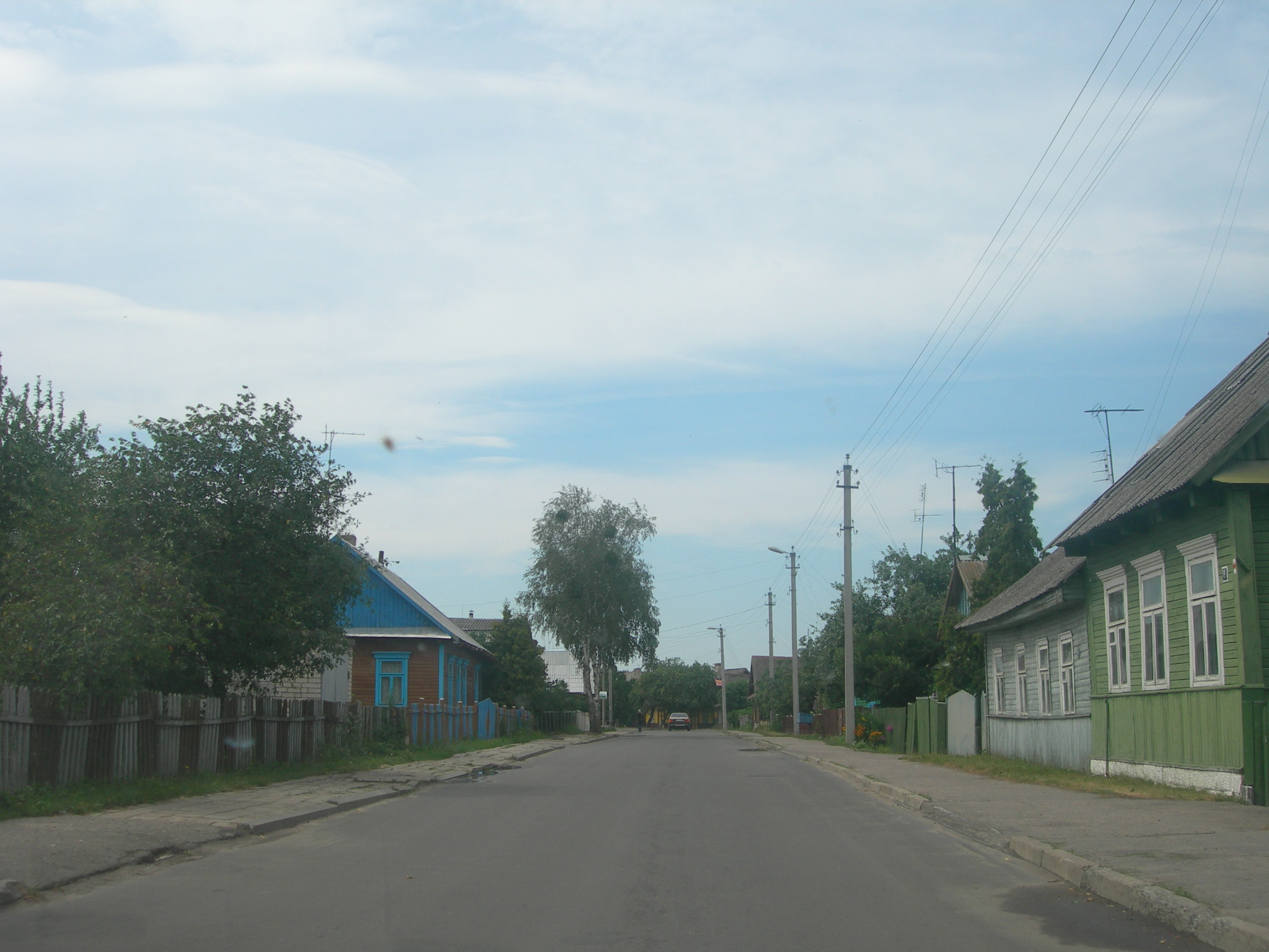 Biaroza, Belarus: older part of town